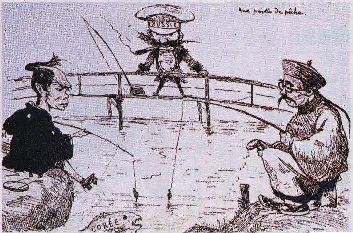 "Une parti de pêche" (a fishing party), Tobae, February 1887.